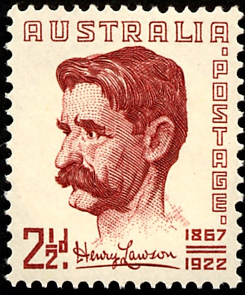 A postage stamp of Australia issued 1949